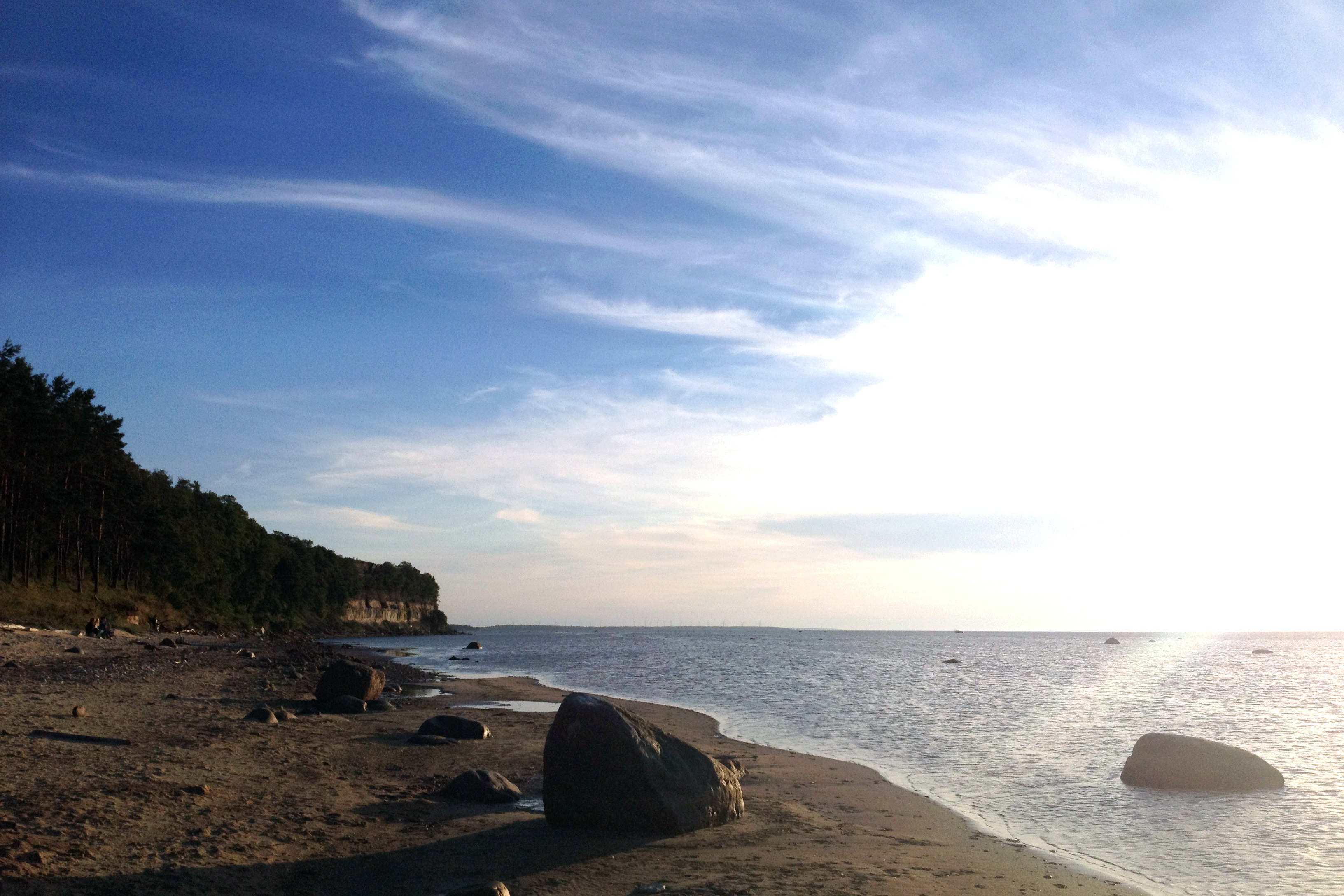 Northern Estonia, Türisalu Cliff